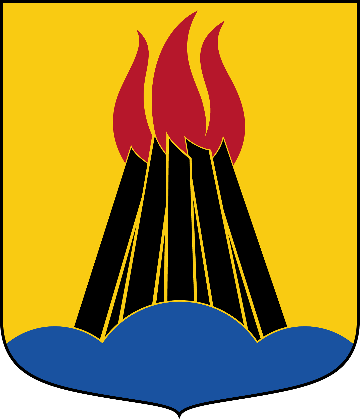 Coat of arms of the municipality of Huddinge, Sweden. Painted by Vladimir A. Sagerlund when he was the heraldic artist at the National Archives of Sweden (Riksarkivet). This representation of a coat of arms is potentially different from the one used by the armiger (municipality or organisation) in question. = ⇑“Sable, a lionrampant or” This coat of arms was drawn based on its blazon which – being a written description – is free from copyright. Any illustration conforming with the blazon of the arms is considered to be heraldically correct. Thus several different artistic interpretations of the same coat of arms can exist. The design officially used by the armiger is likely protected by copyright, in which case it cannot be used here.Individual representations of a coat of arms, drawn from a blazon, may have a copyright belonging to the artist, but are not necessarily derivative works. Further information: Commons:Coats of arms and Template:Coa blazon